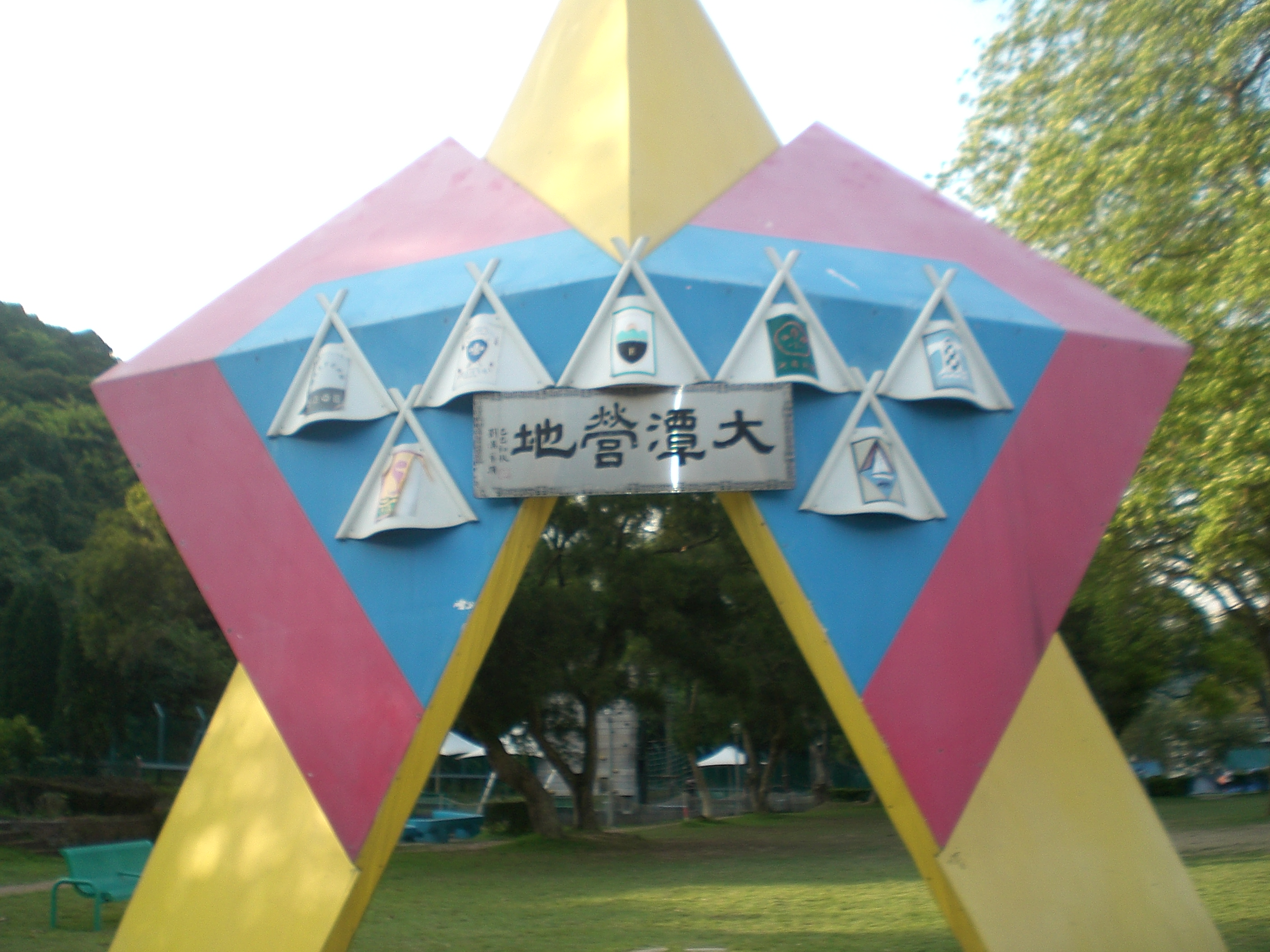 Tai Tam Scout Centre arch